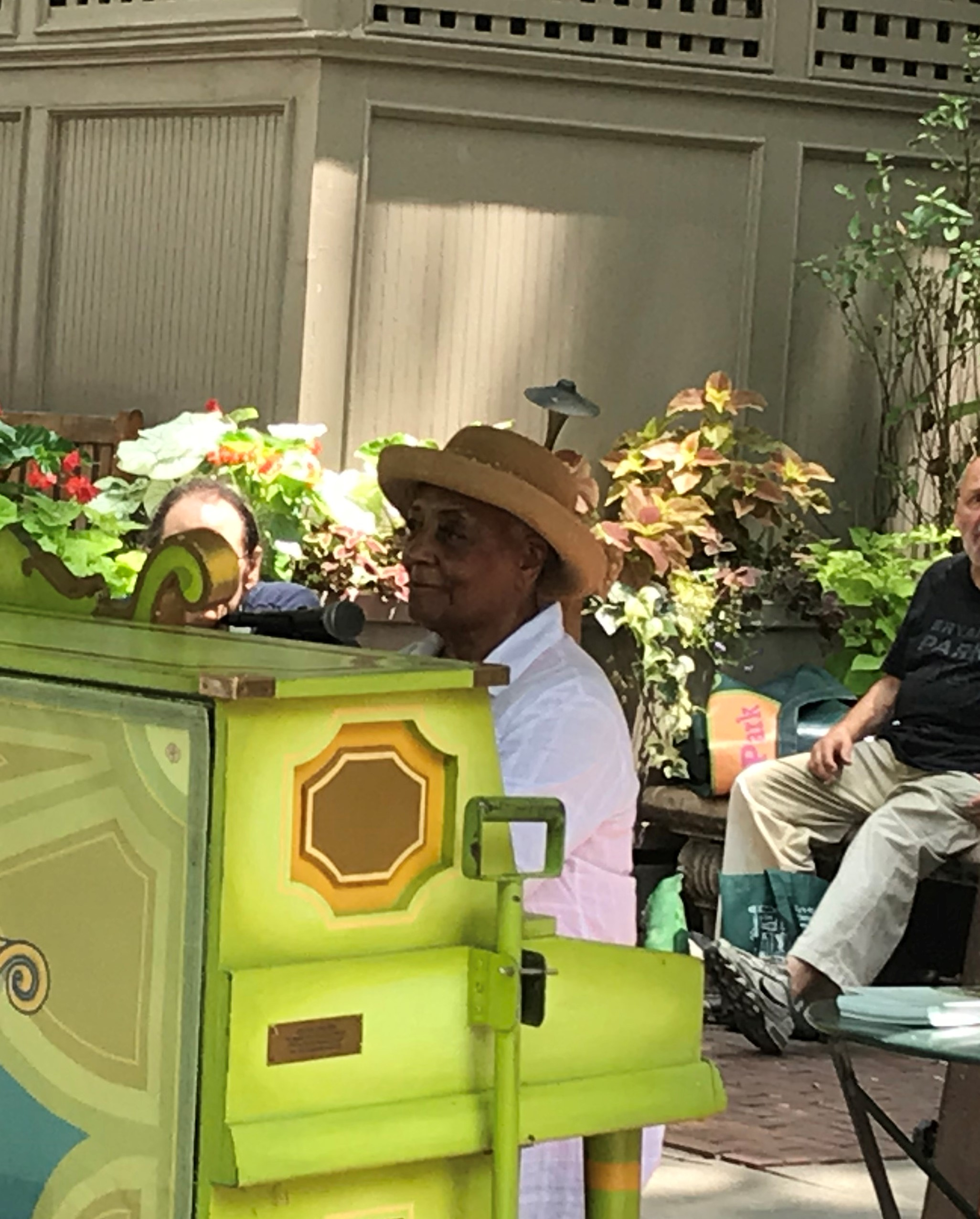 Bertha Hope playing piano in Bryant Park, New York